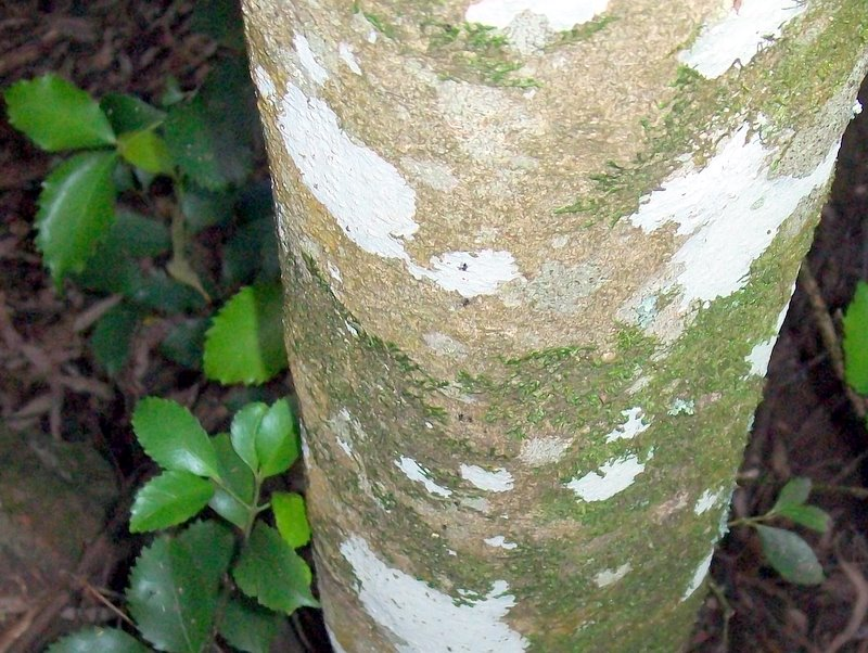 Daphnandra johnsonii (Illawarra Socketwood). Base and coppice leaves at Budderoo National Park